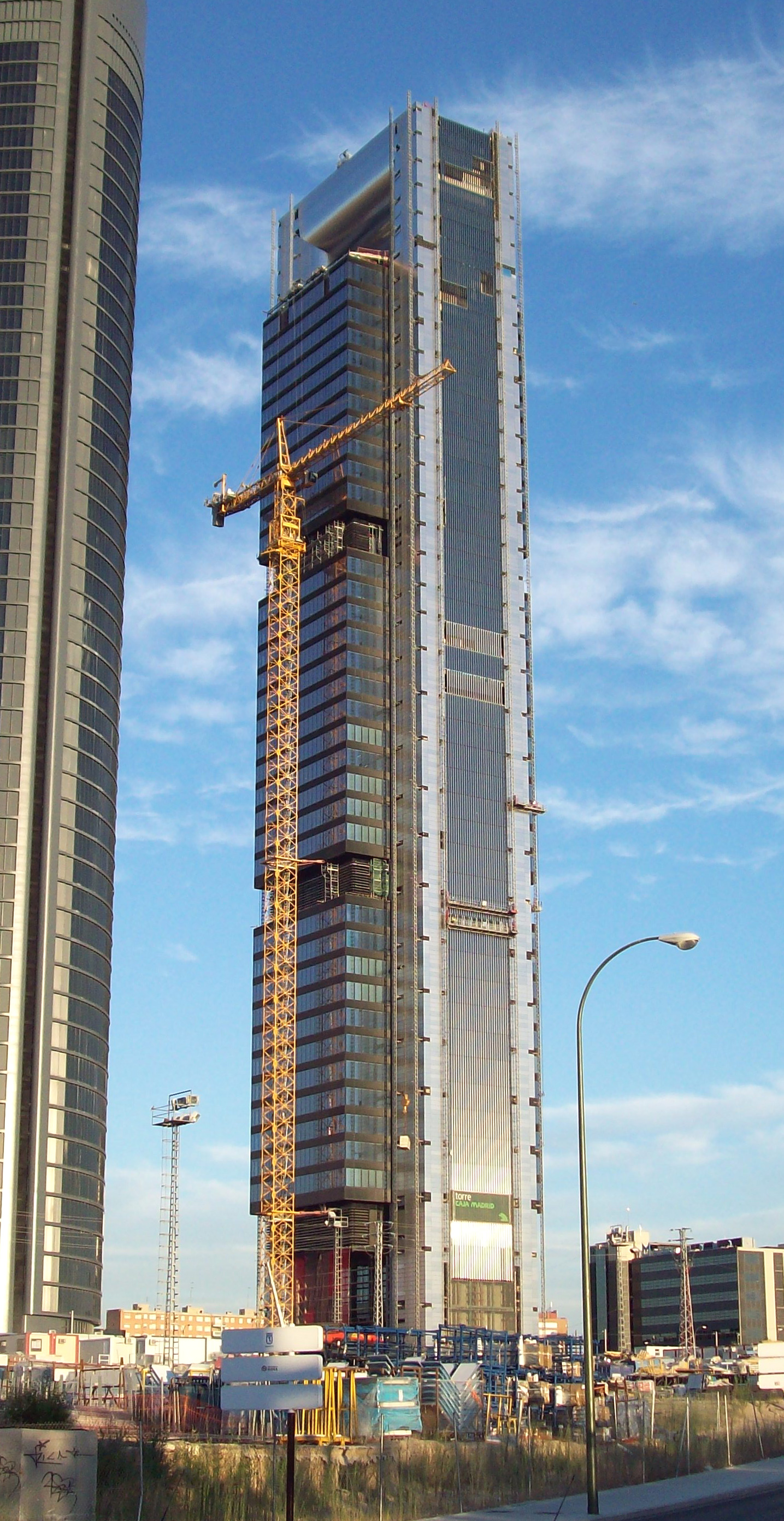 Torre Caja Madrid, in Cuatro Torres Business Area (Madrid, Spain). Architects: Foster and Partners.